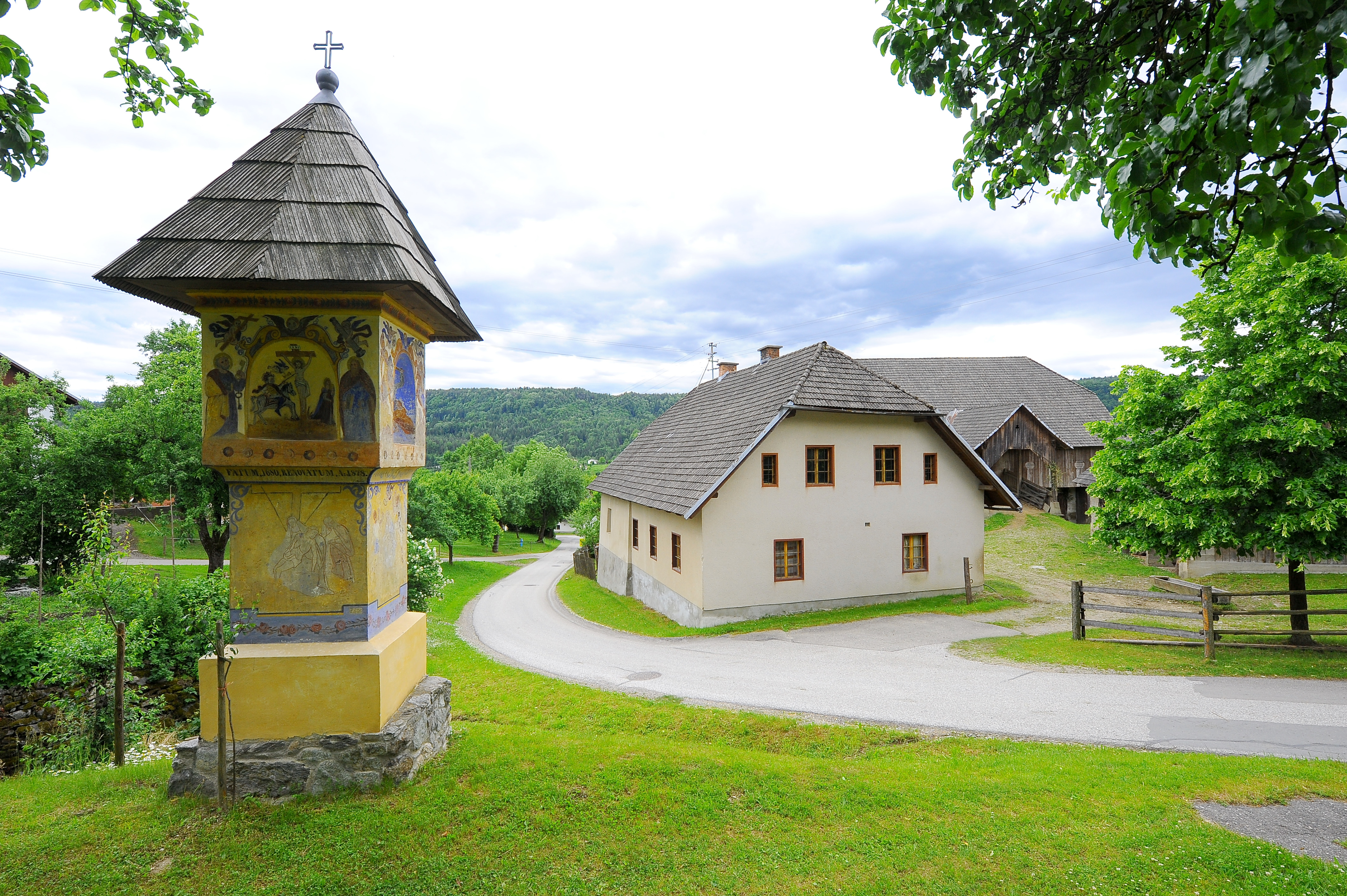 Leisbach #6, farmstead "vulgo POLZER" and wayside shrine "POLZERKREUZ" from the year 1680 in the municipality Keutschach am See, district Klagenfurt Land, Carinthia, Austria